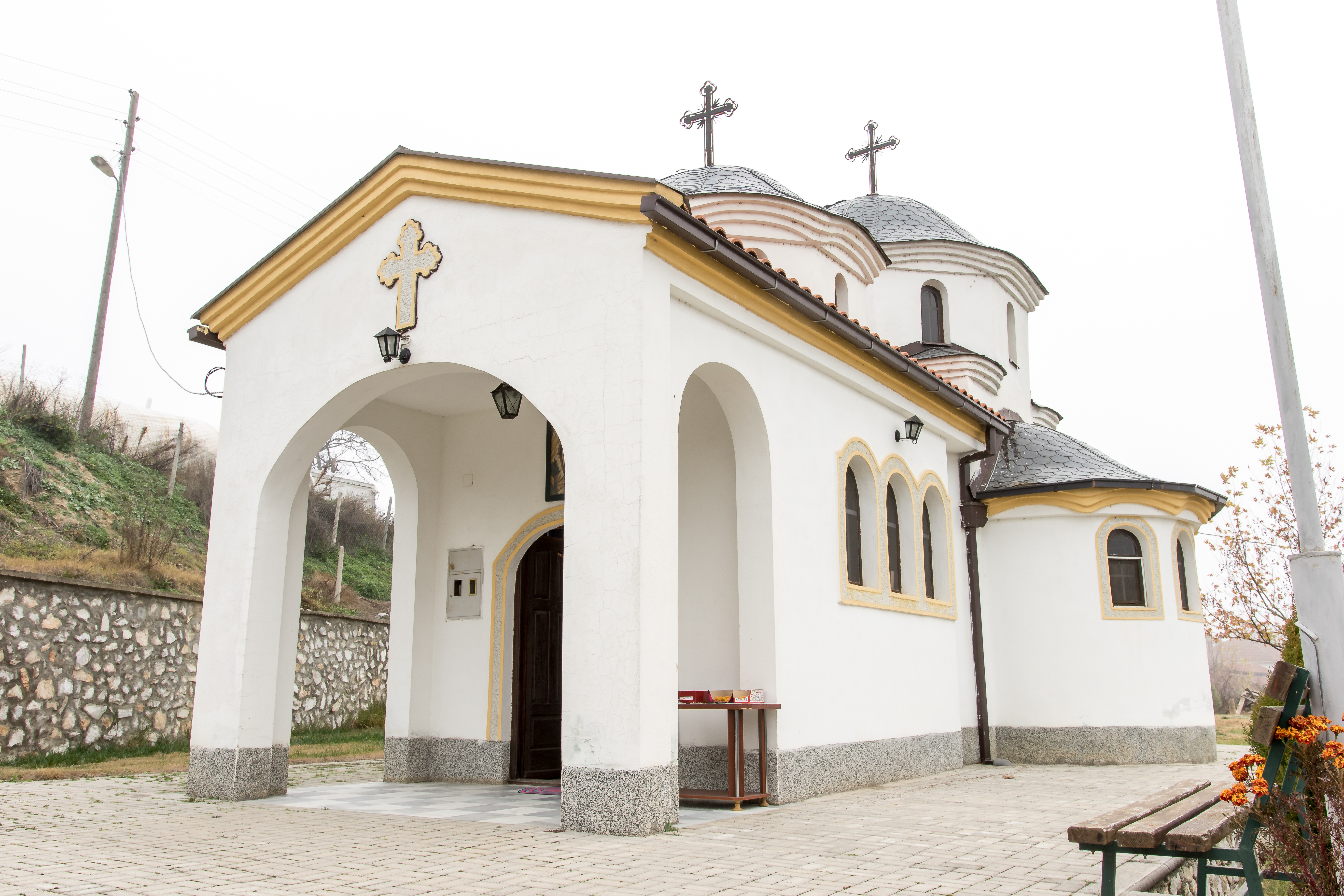 View of the St. Elijah Church in the village Viničani